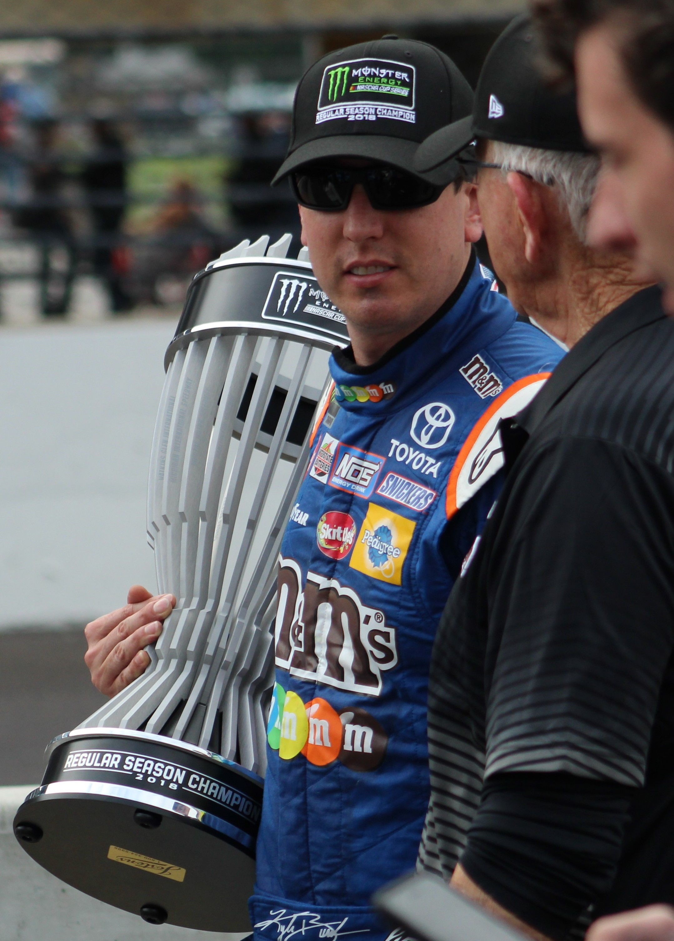 Kyle Busch holds the Regular Season Champion trophy at Indianapolis Motor Speedway in 2018.